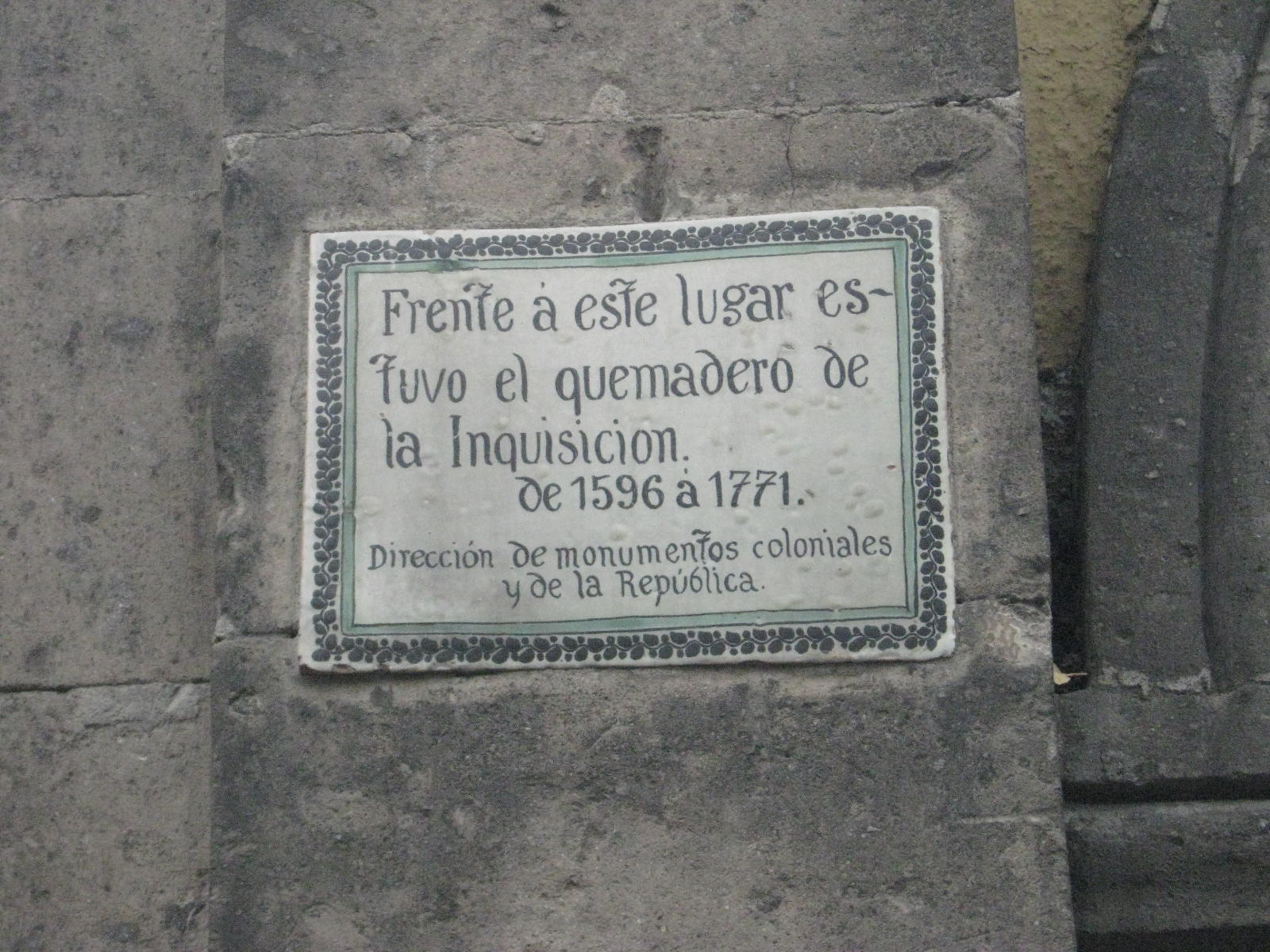 Plaque at the gate of the Convent of San Diego church in Mexico City commemorating the victims of the Mexican Inquistion who were burned alive here